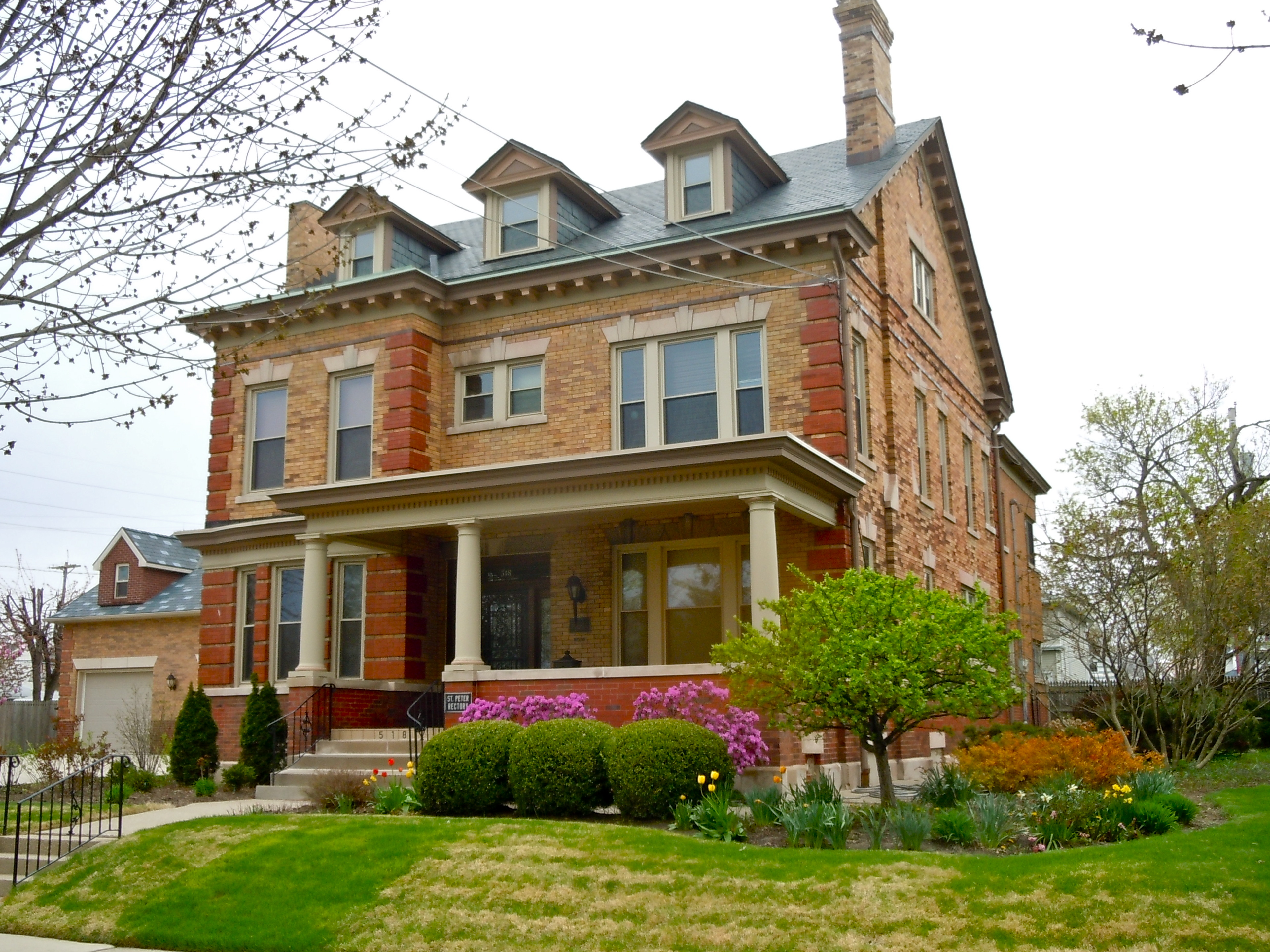 Part of St. Peter's Square Historic District on the NRHP since March 20, 1991. The historic district is roughly bounded by St. Martin, Hanna, E. Dewald, and Warsaw Sts., including 518 E. Dewald St., Fort Wayne, Allen County, Indiana. This house used as the rectory.